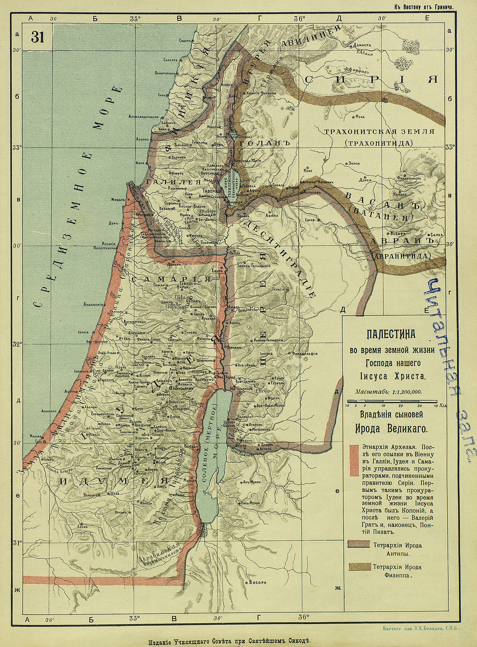 Palestine at the time of the earthly life of Jesus Christ. Map. 1911.